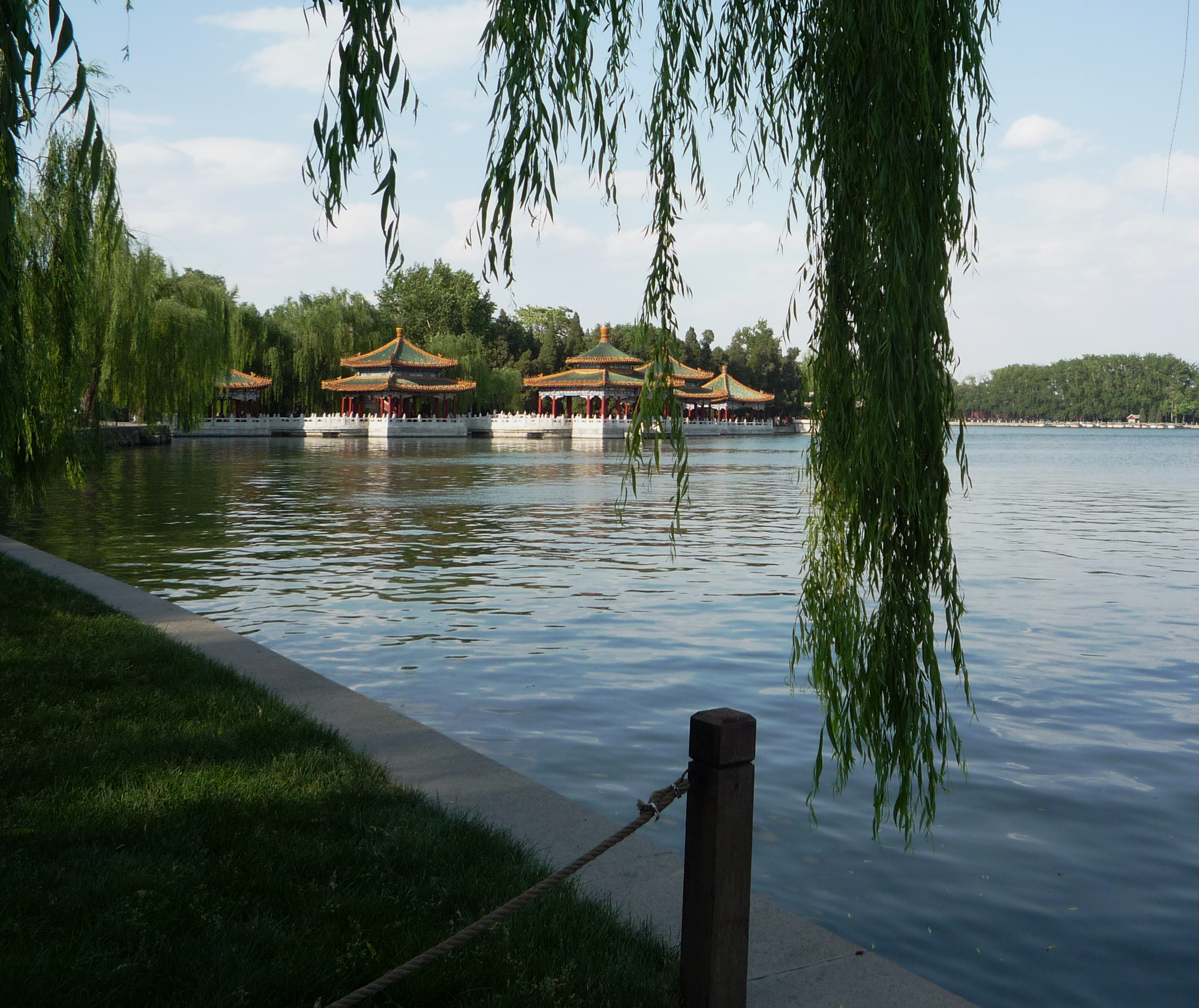 Five-Dragon Pavilion at Beihai Park in Beijing, China.